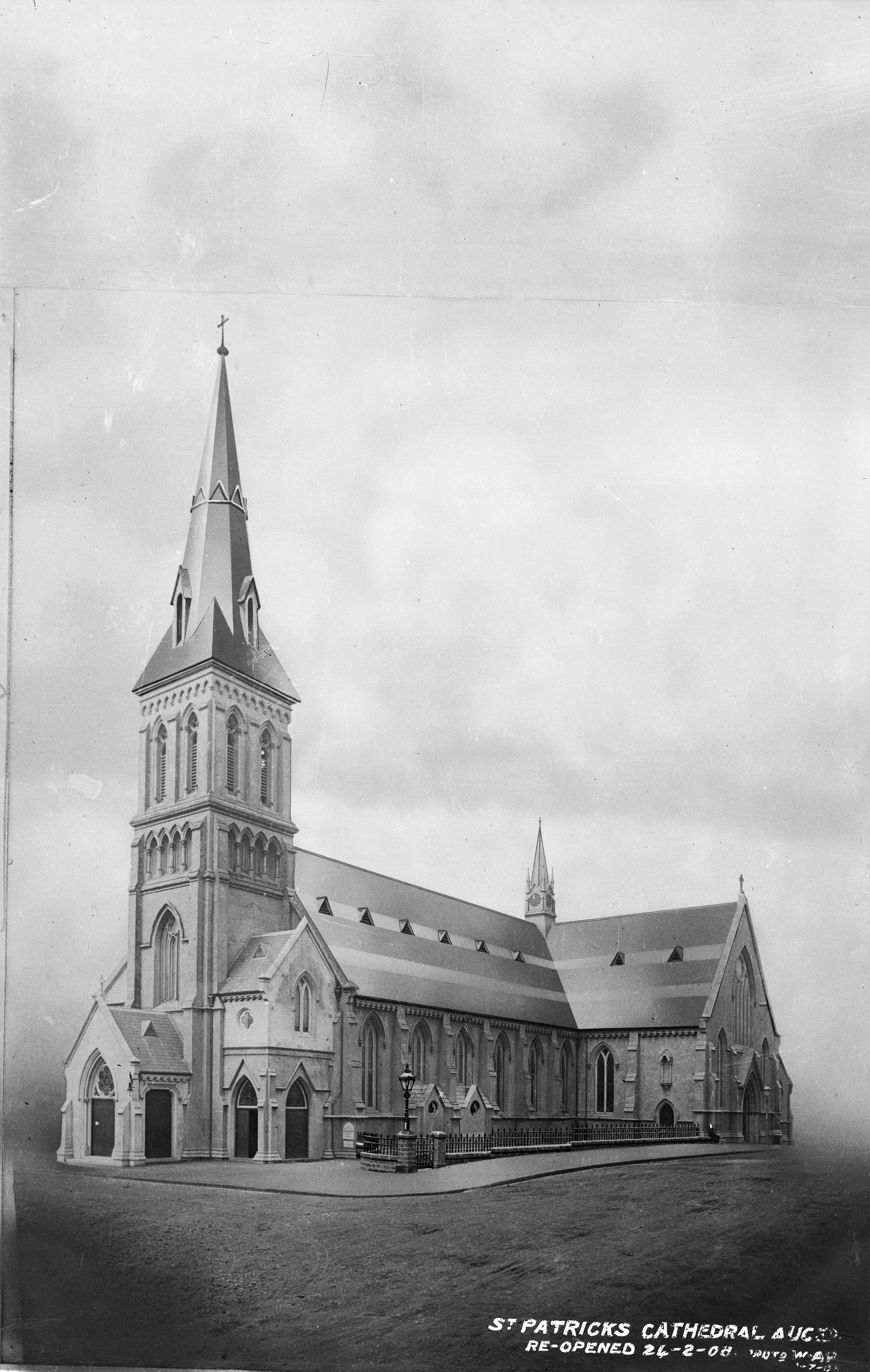 Re-touched photograph of St Patrick's Cathedral, Wyndham Street, Auckland. Taken by William A Price in 1908. Inscriptions: Inscribed - Photographer's title on negative -bottom right: St Patricks Cathedral, Auck. Re-opened 24-2-08. [unreadable]. Quantity: 1 b&w original negative(s). Physical Description: Glass negative St Patrick's Cathedral, Auckland. Price, William Archer, 1866-1948 :Collection of post card negatives. Ref: 1/2-000776-G. Alexander Turnbull Library, Wellington, New Zealand.